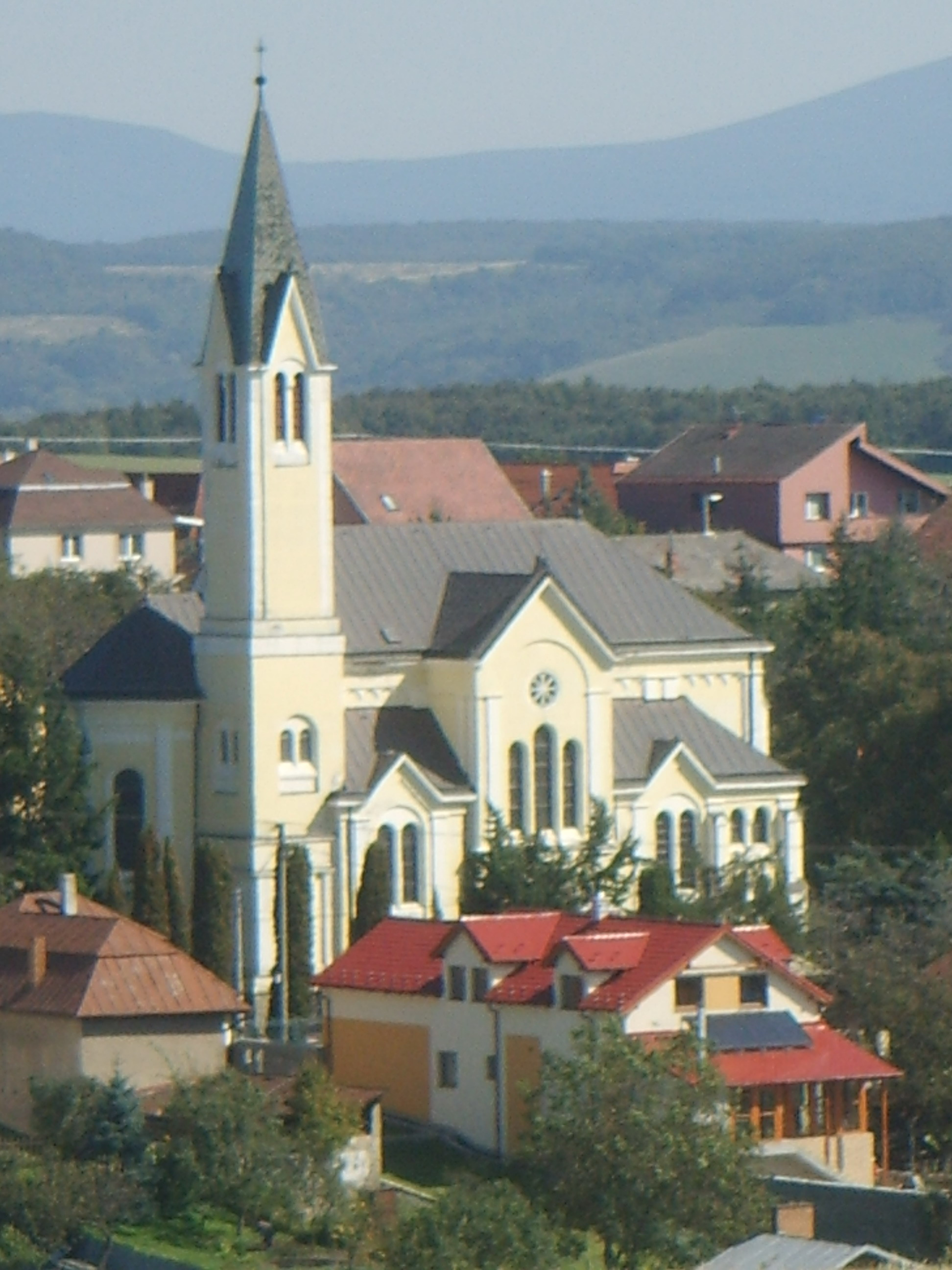 Košická Nová Ves-St. Ladislav church